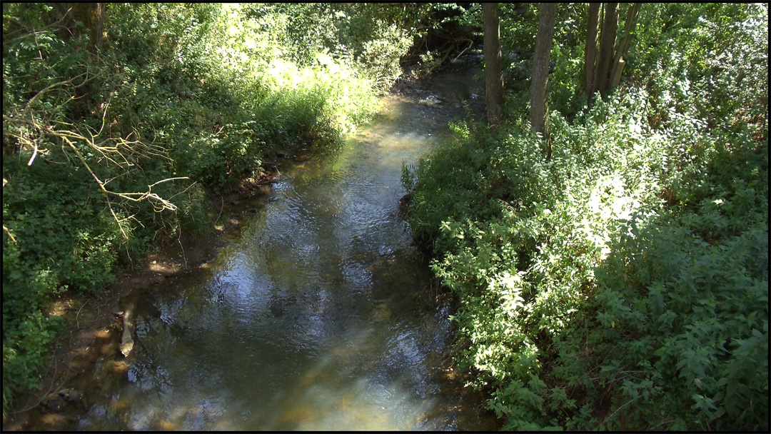 The Vire, near Saint-Rémy.